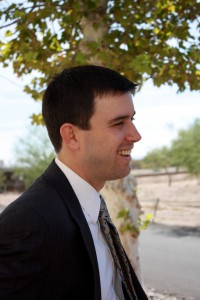 Gabriel "Gabe" Zimmerman, on the staff of U.S. Representative Gabrielle Giffords.